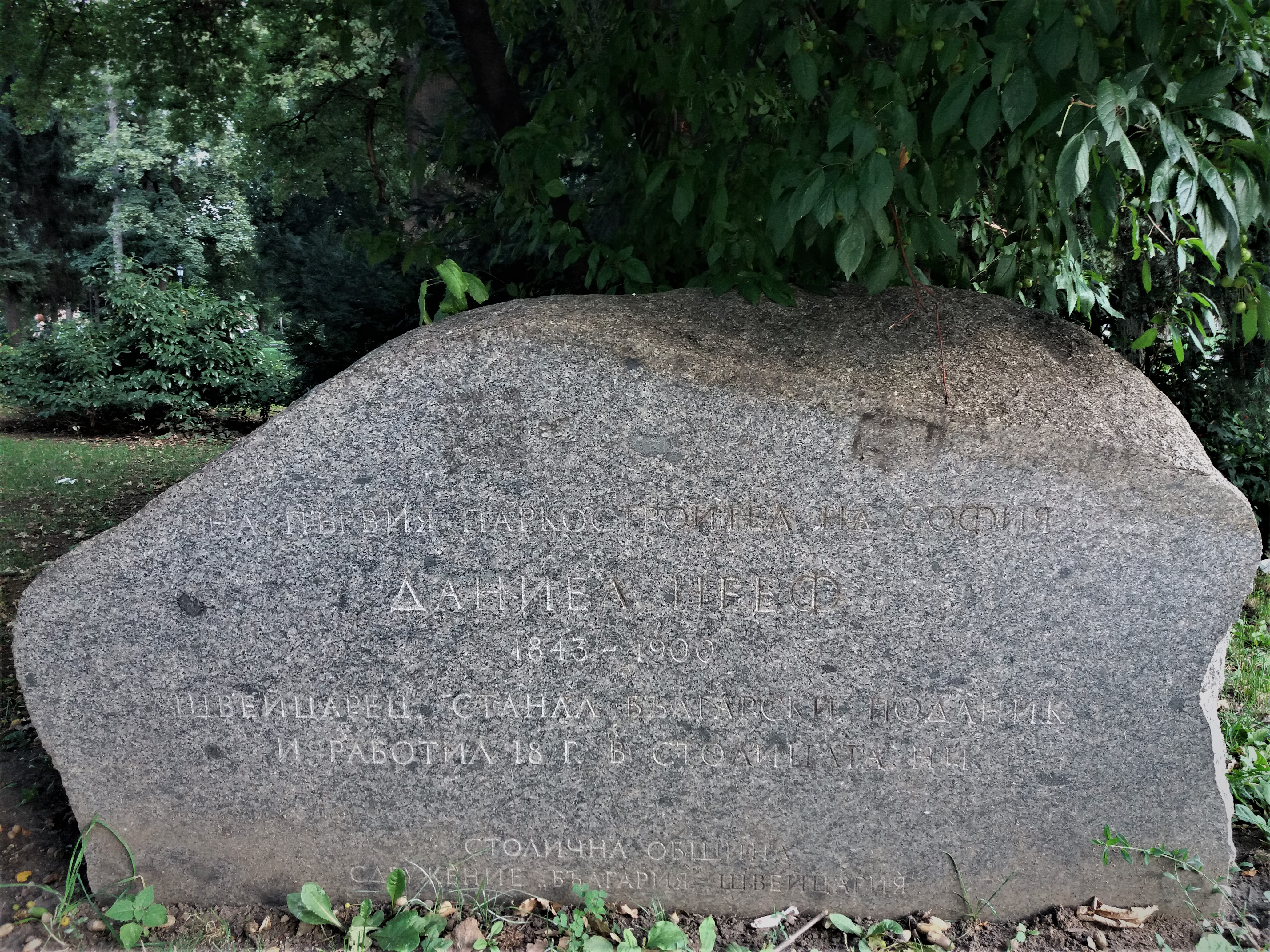 Daniel Neff plaque in Borisova Grdaina, Sofia